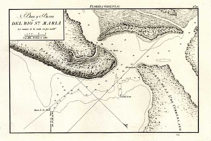 Map of the bar of the St. Marys River, between Amelia and Cumberland islands. By Gonzalez, T. (1750-1846) Portulano de la America Setentrional, construido en la Direccion de Trabajos Hidrograficos, 1809. Madrid.